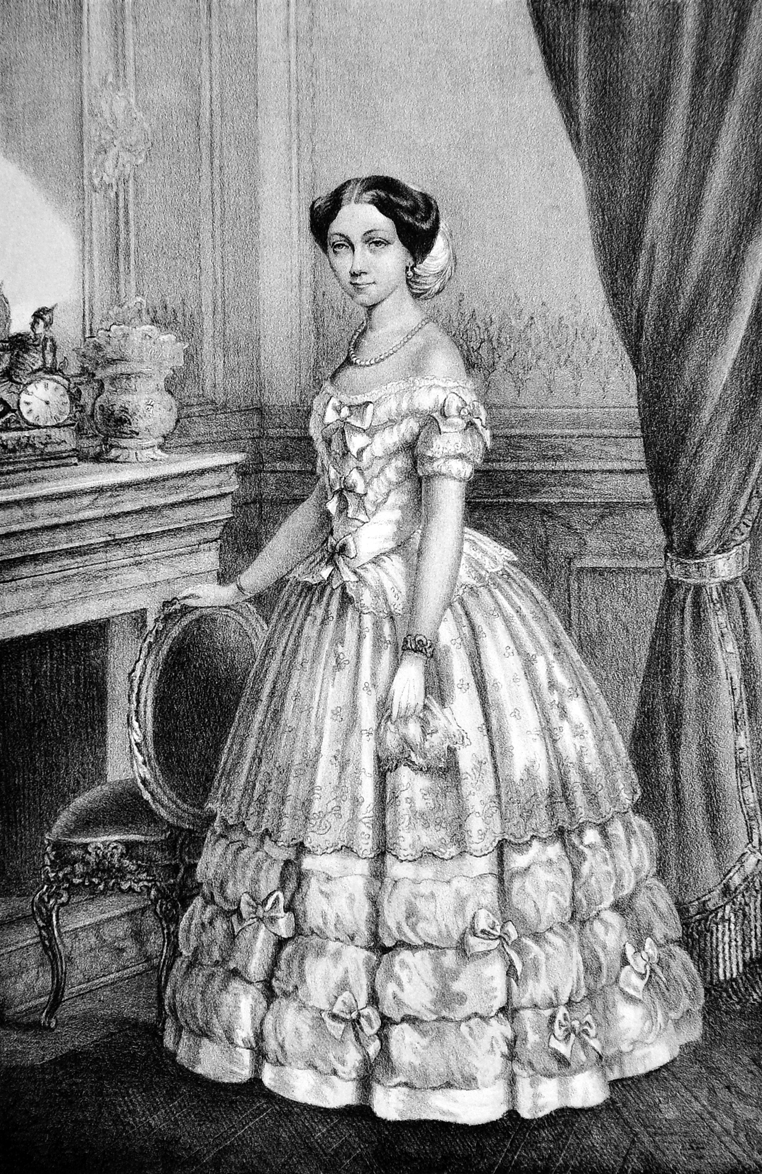 Marie of Saxe-Altenburg Queen of Hanover.